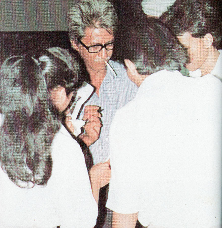 Teguh Karya signing autographs at the 1982 Indonesian Film Festival in Jakarta